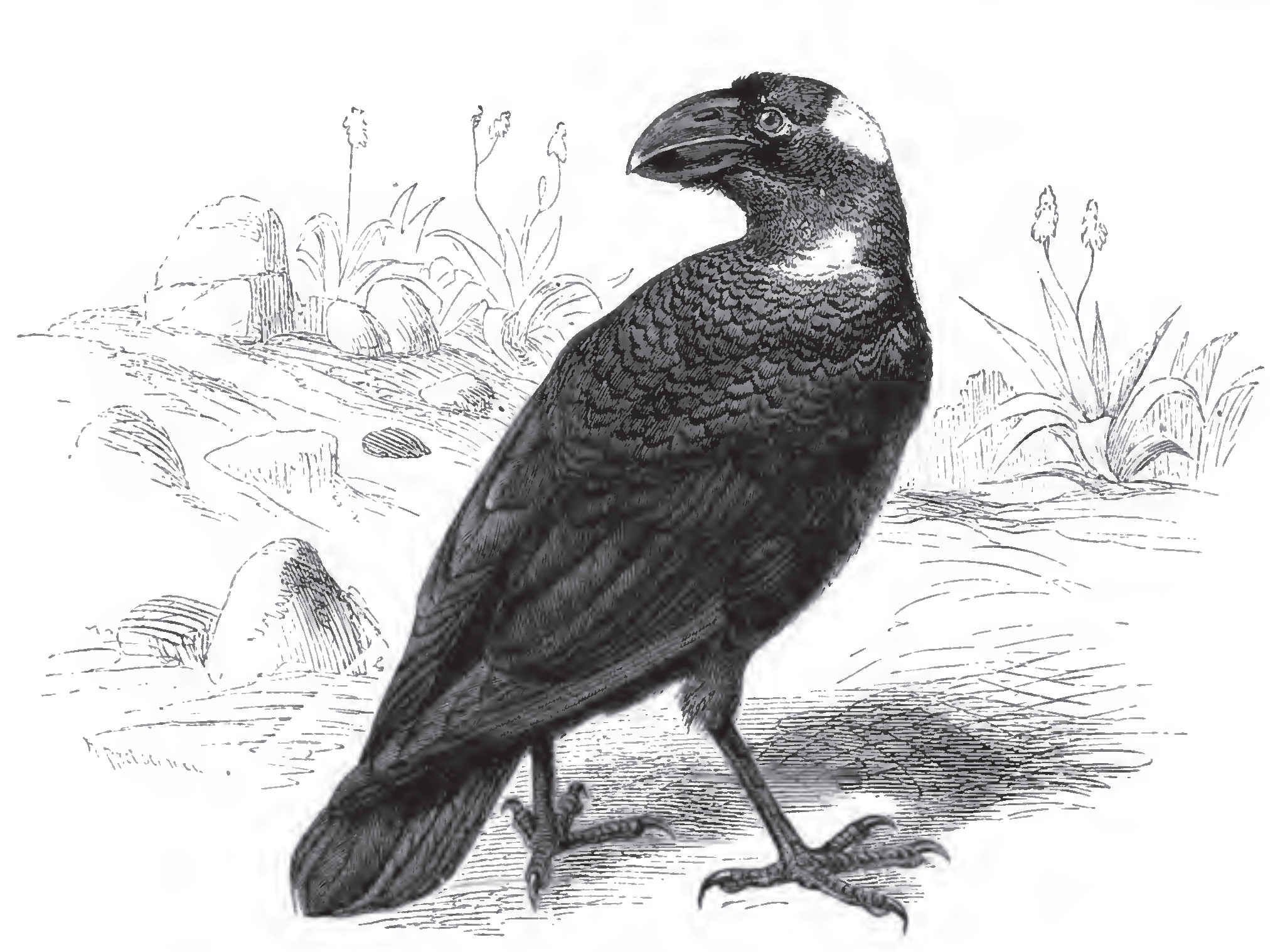 Thick-billed Raven (Corvus crassirostris). Illustration by Robert Kretschmer (?) from Brehms Tierleben (English title: Brehm's Life of Animals). Description under the picture reads: Erzrabe (Corvultur crassirostris). ⅙ natürl. Größe.